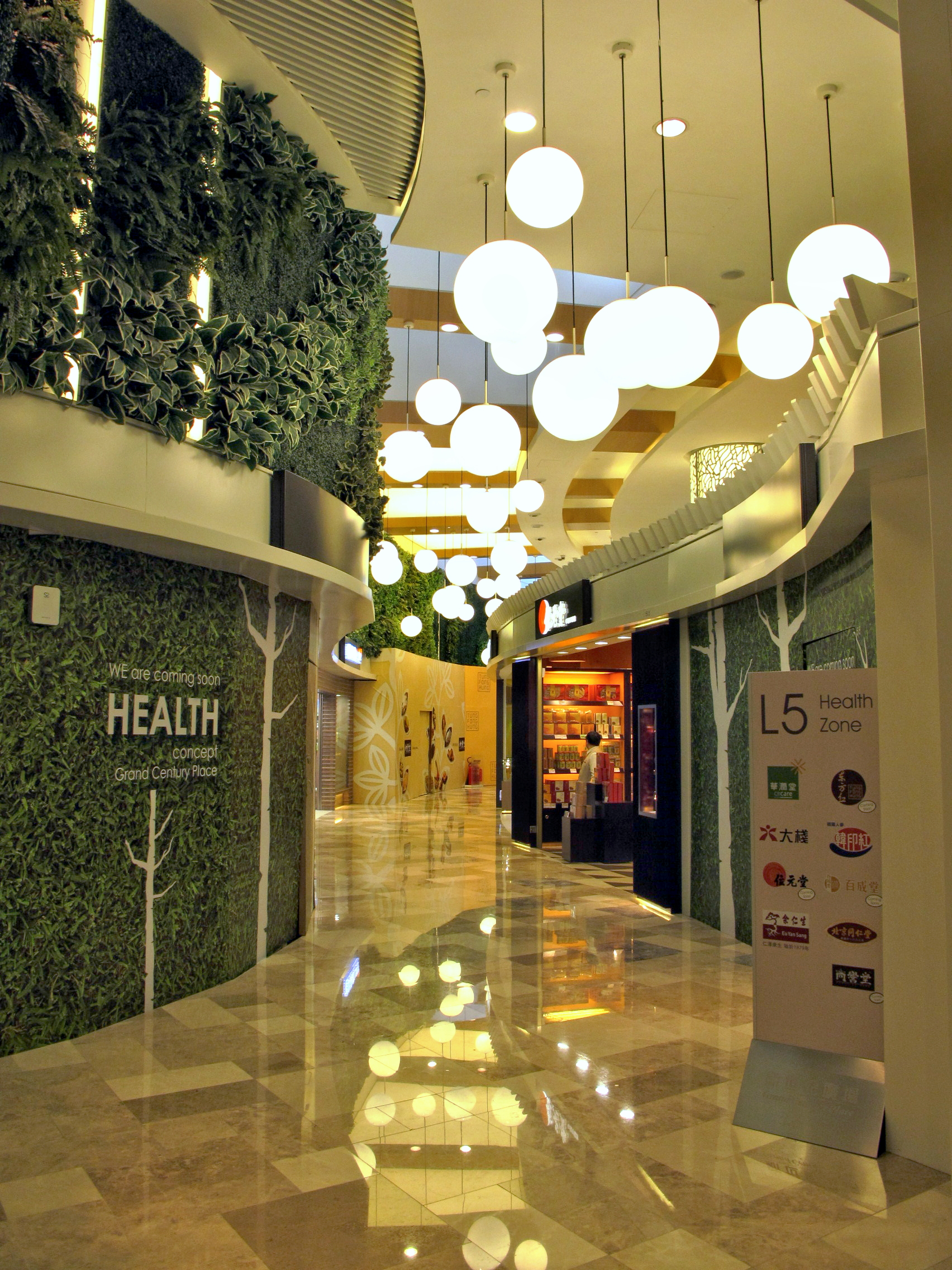 Grand Century Place Level 5 新世紀廣場5樓